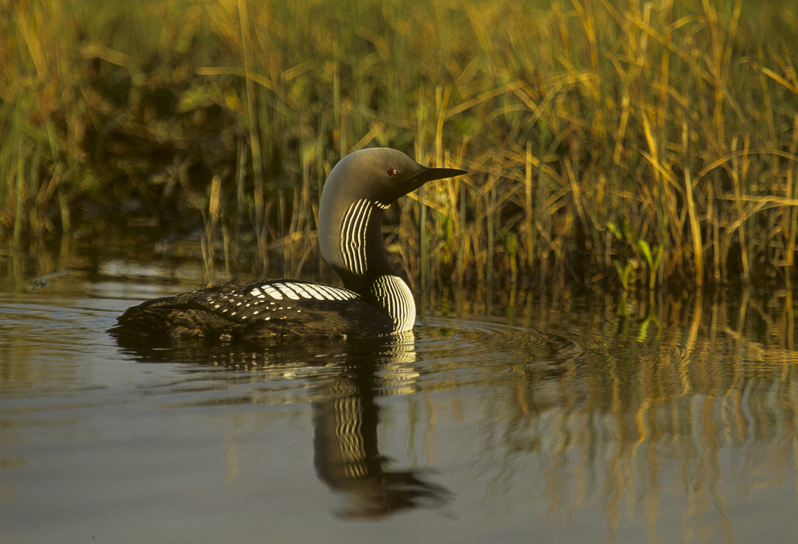 Pacific Loon - Churchill - Canadà20010006